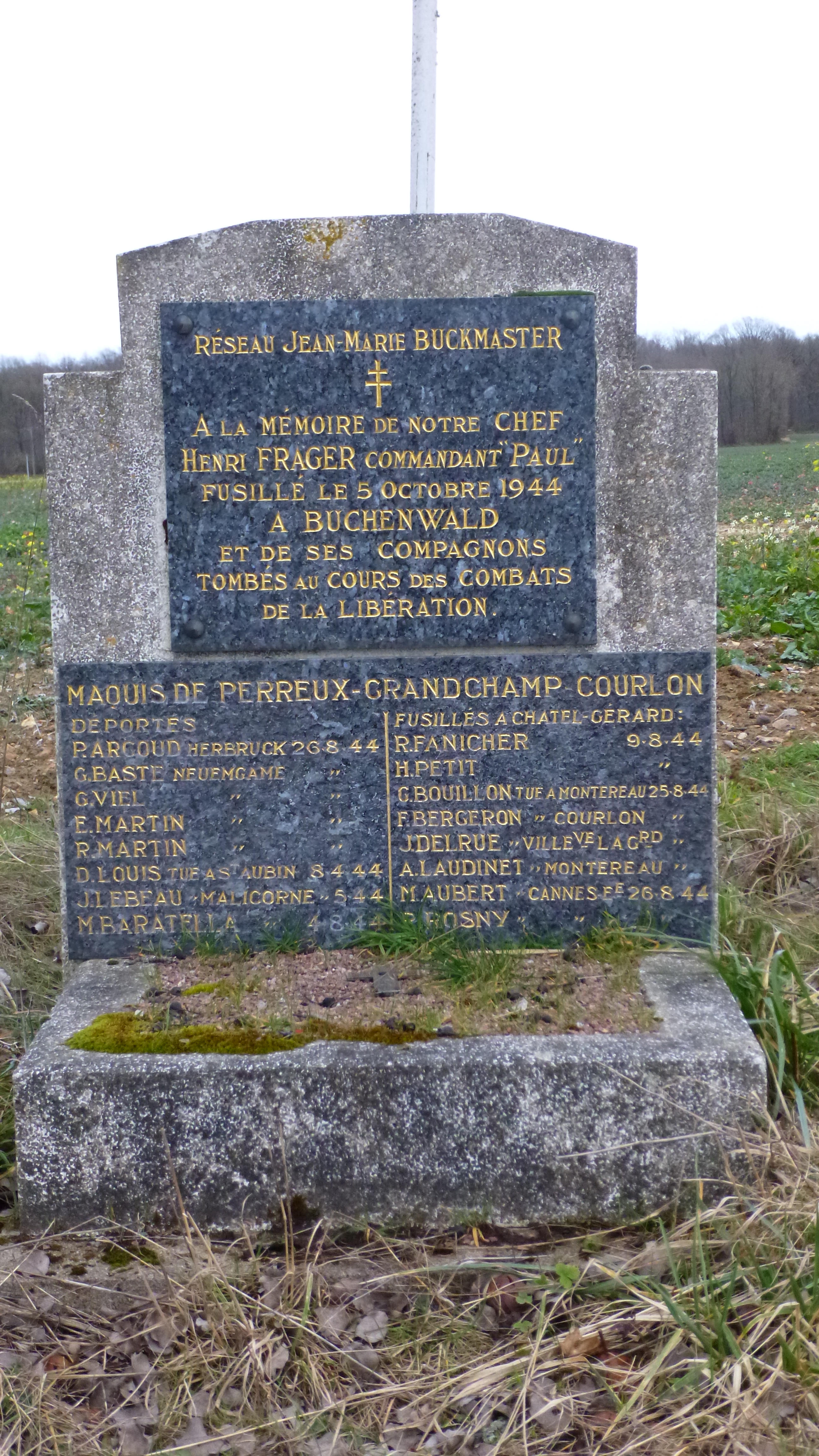 Perreux, Yonne, Burgundy, France. On a very small country road at the back of (nearly) nowhere, a war memorial to some fighters in the French Résistance. It stands on the road from Perreux to Grandchamp, at the begining of the road to L'Ermite (written "hermite" on the road sign).